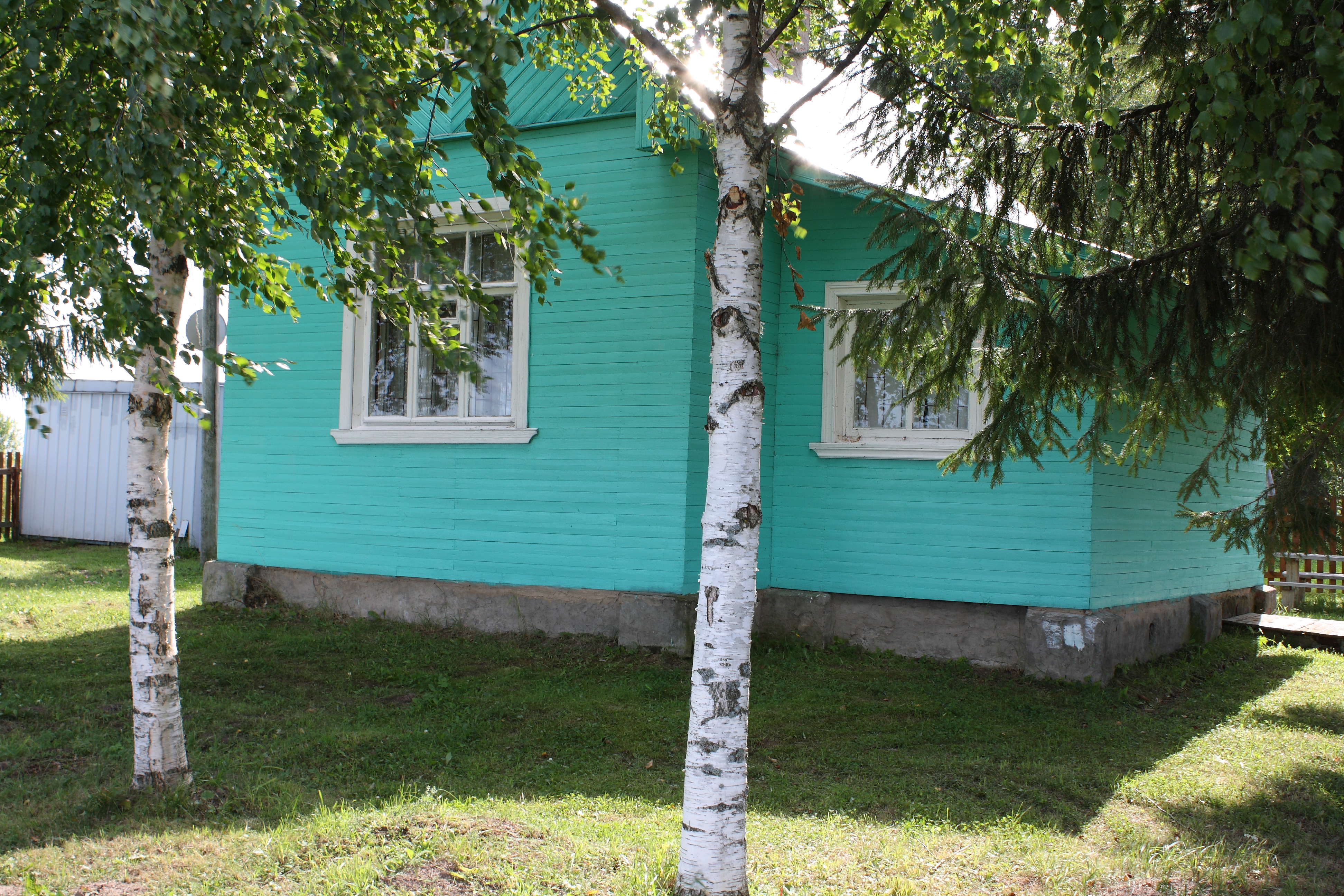 House of aircraft designer Sergey Vladimirovich Ilyushin in Dilialevo village (Vologda Oblast, Russia)